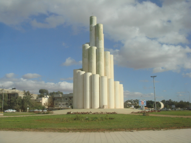 Alnahar ring intersection